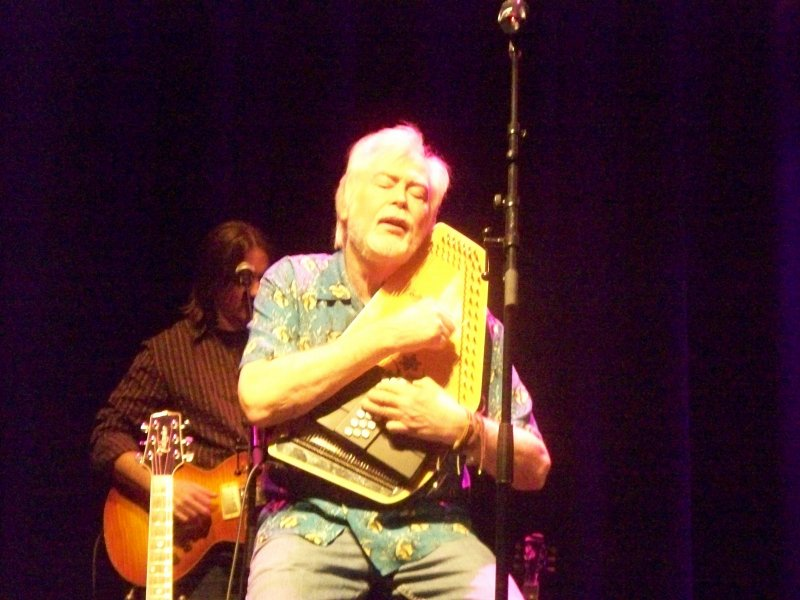 Joe Butler with The Lovin' Spoonful-Showcase Live, Foxboro, Mass. Jan. 13, 2011. The current band lineup of the Lovin' Spoonful features Joe Butler on lead vocals and autoharp, percussion and guitar.